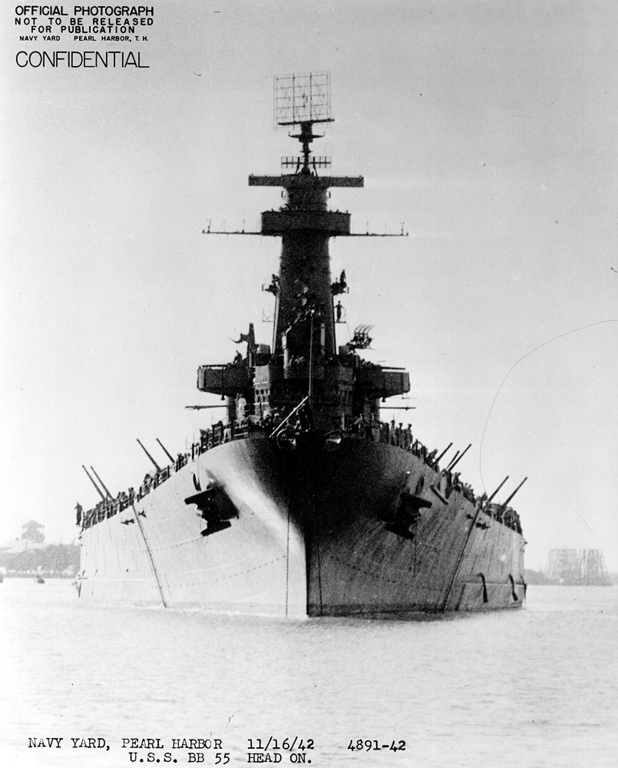 United States National Archives, Photo No. ARC 512915 via Mike Green. Photo added 01/23/14.